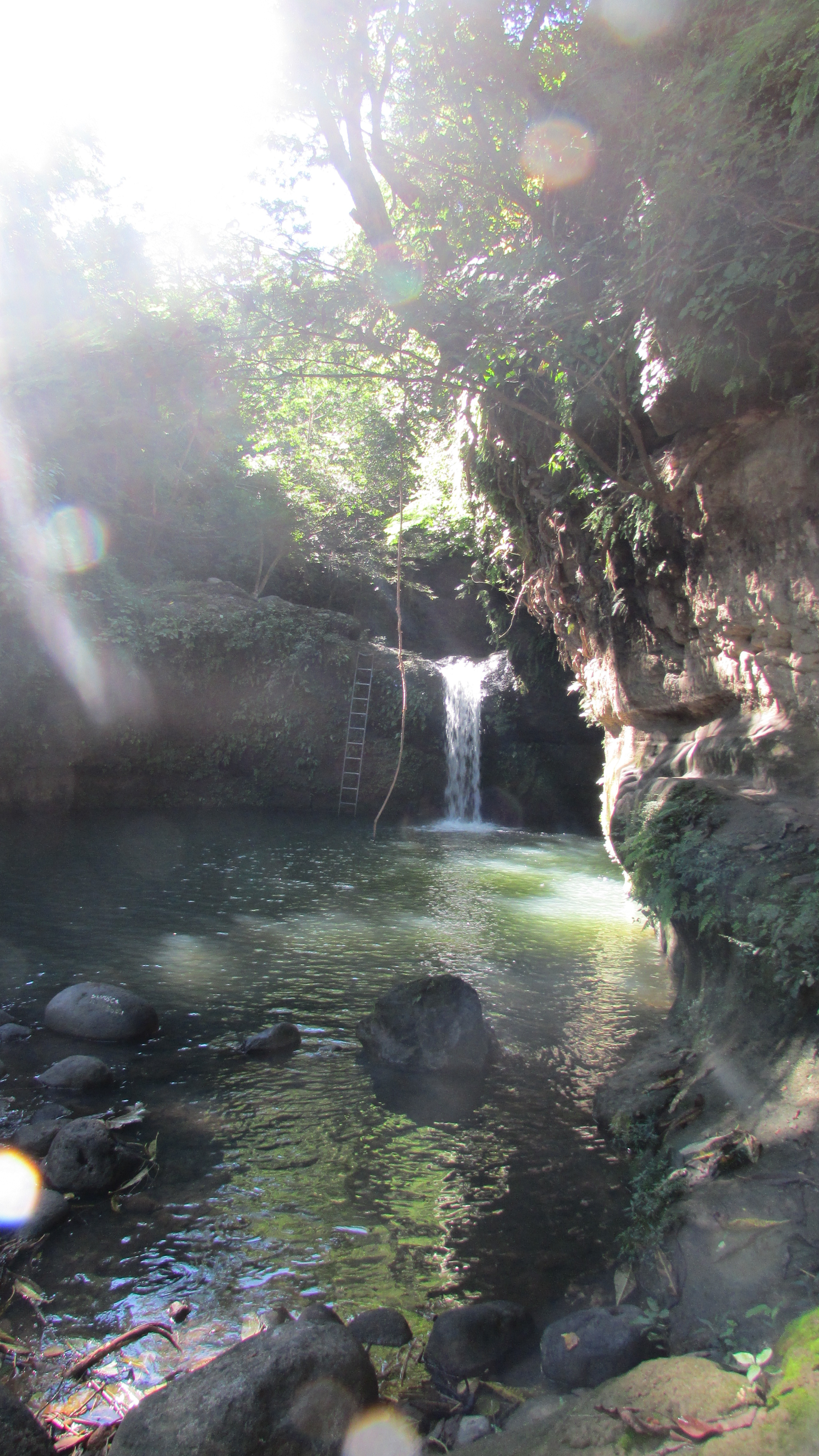 The Poza, natural pool and waterfall - part of the stunning ecotourism route in Nuevo Gualcho, El Salvador